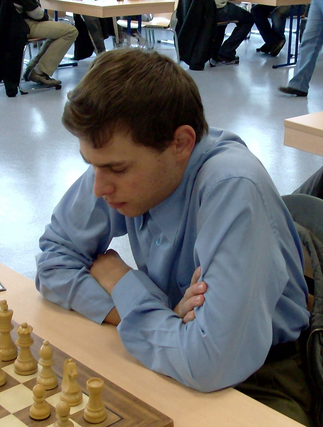 Evgeni Postny, chess grandmaster from Israel